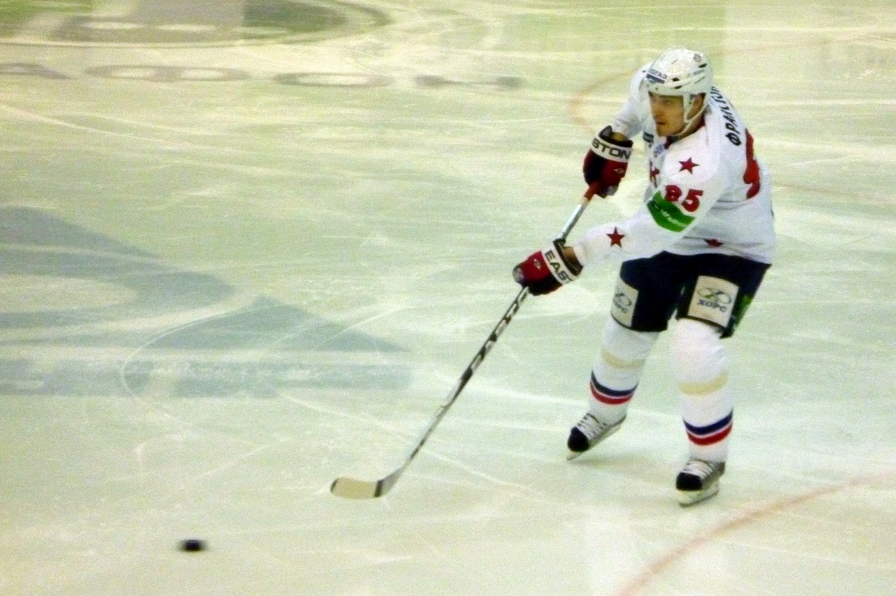 SKA St. Petersburg defender Johan Fransson in a match against Torpedo Nizhny Novgorod December 12, 2010